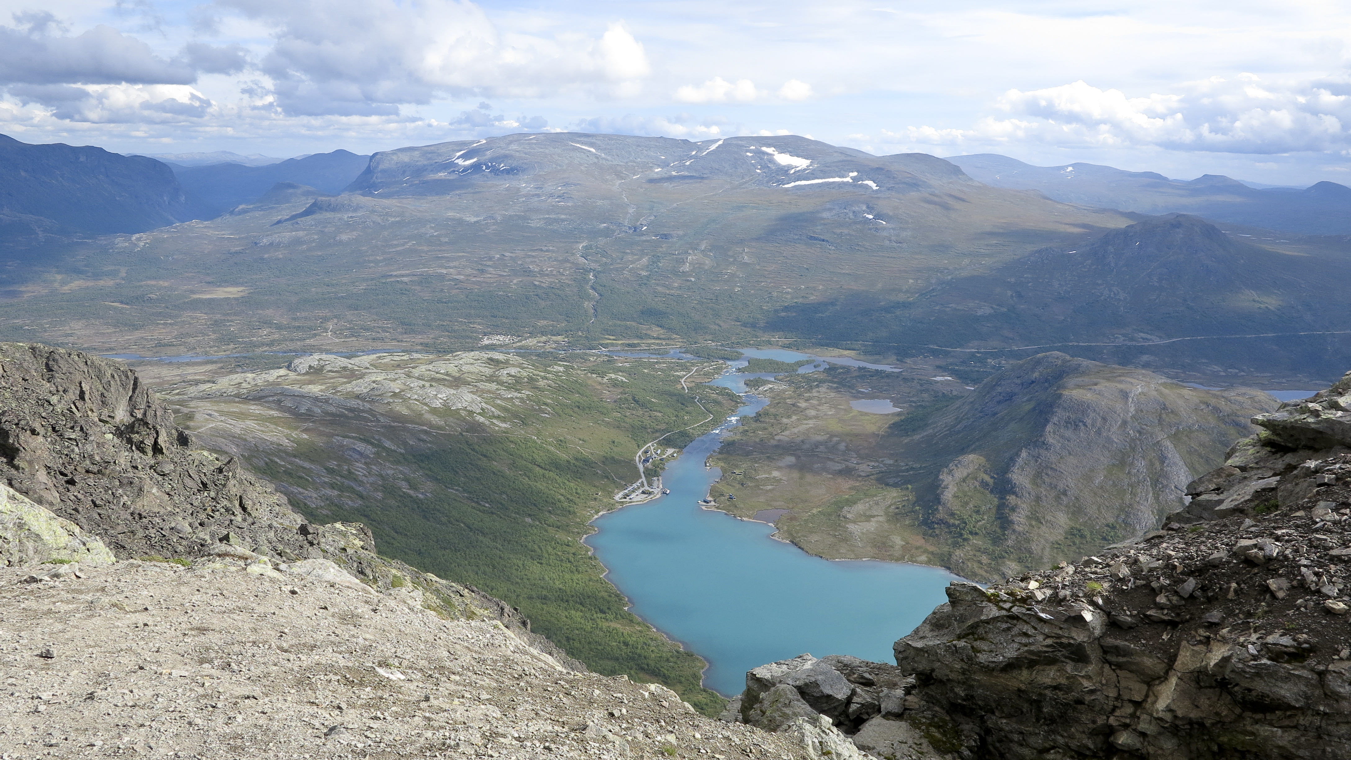 Gjendesheim seen from mountain Besseggen